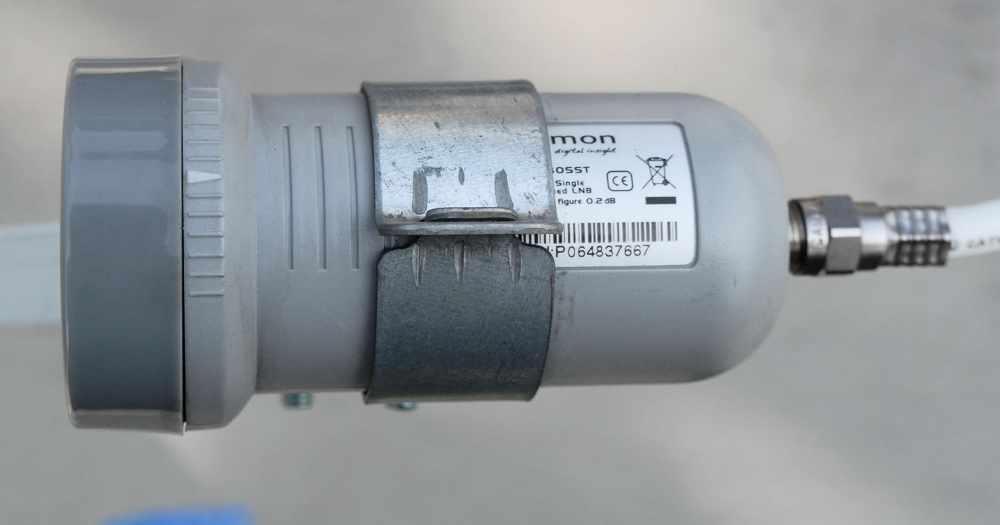 "Astra type" LNBF